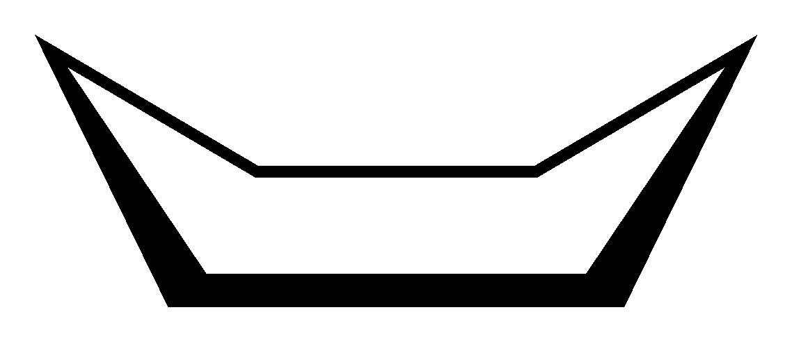 Skeletal projection of the boat conformation of cyclohexane. Structure drawn in ChemDraw Ultra 11.0.